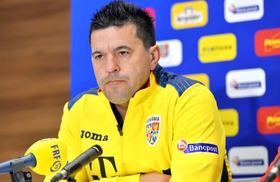 Cosmin Contra during a press conference for the National Football Team of Romania.